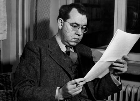 Thorsten Jonsson (1910-1950), writer and editor at Dagens Nyheter.